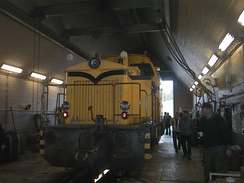 Move 66 diesel locomotive, owned by UPM-Kymmene Corporation, in Kuusankoski, Finland